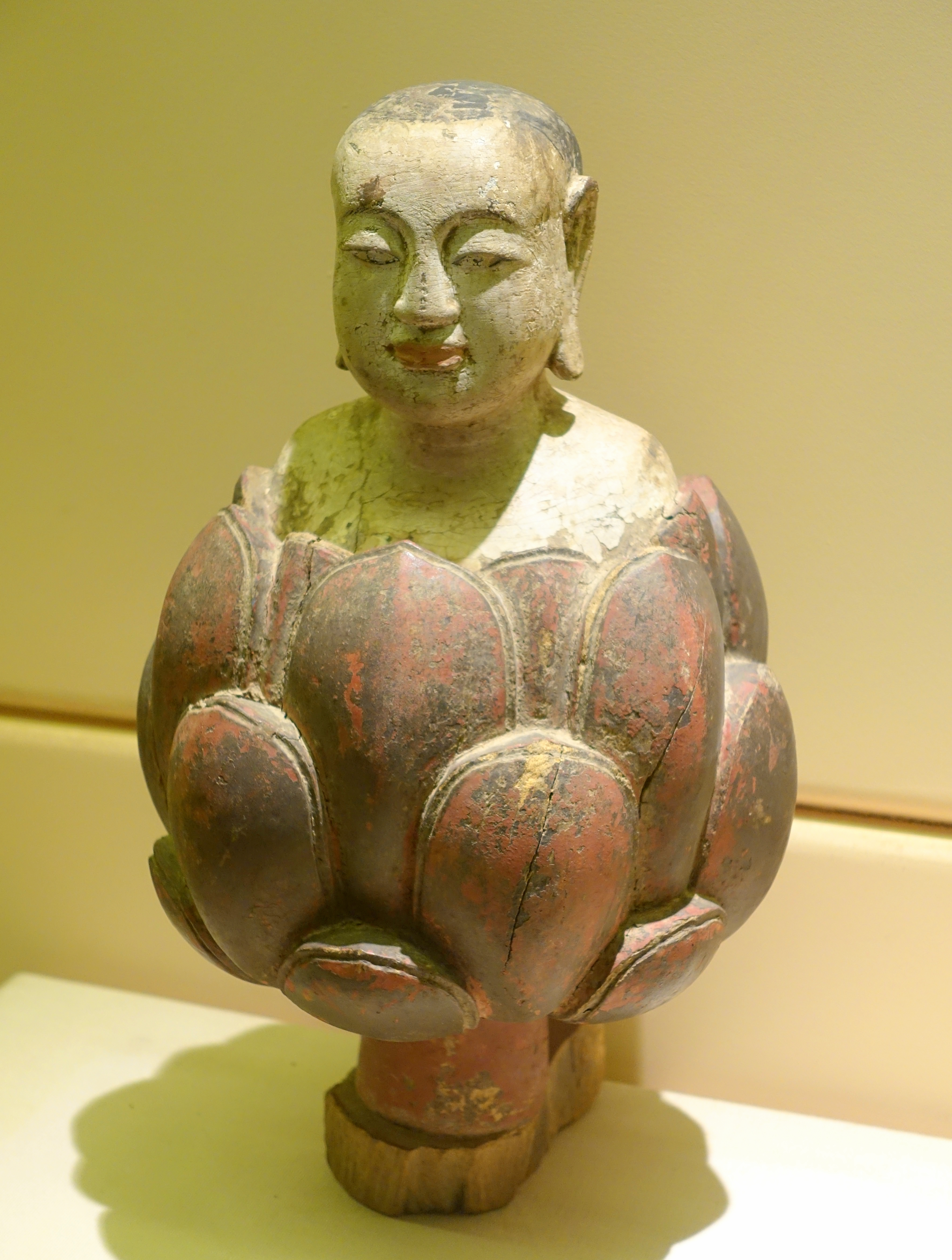 Exhibit in the National Museum of Vietnamese History, Hanoi, Vietnam. This artwork is old enough so that it is in the public domain.